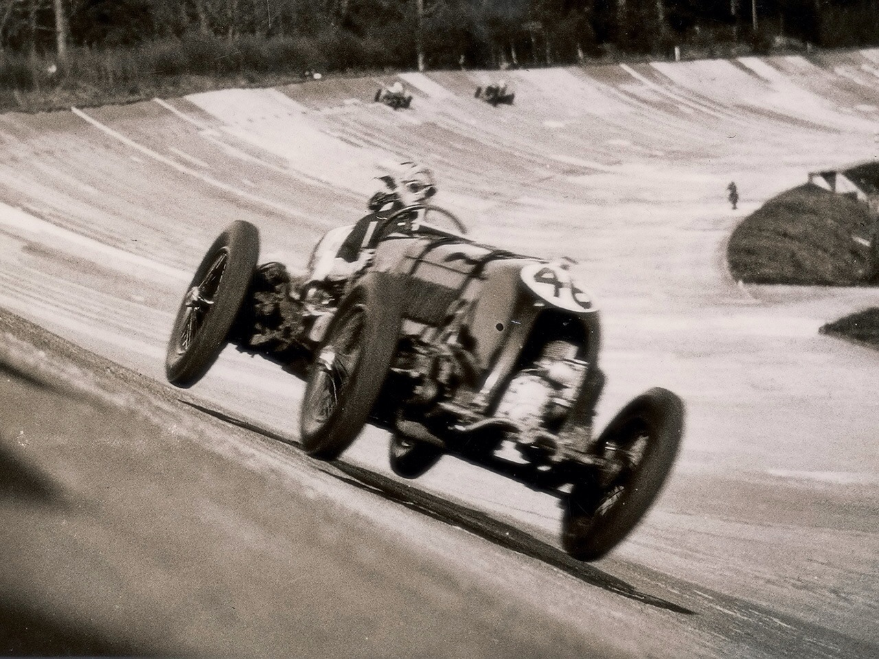 Bentley 4½ Litre supercharged 1929Tim Birkin at BrooklandsThe car recently sold for over 5,5 million Euros!